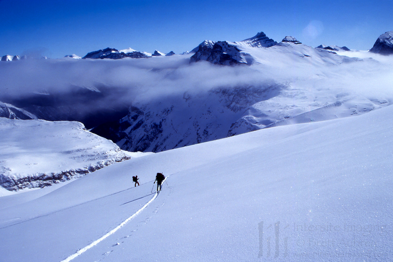 Skiing up the Waputik from Balfour Hut to Mt Balfour; Doug & Vic. The drainage visible centre left leads down to Hector Lake.